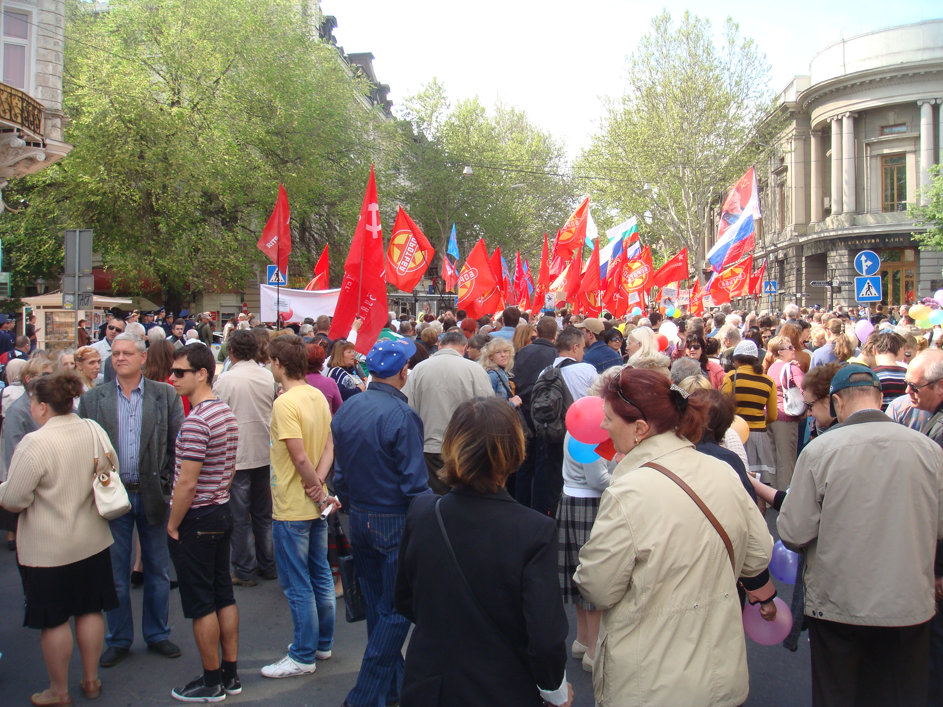 1st of May demonstration in Odessa in year 2014.